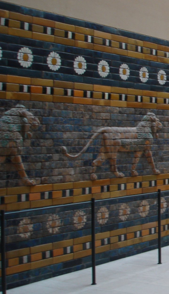 Lion from Processional Way near Ishtar Gate